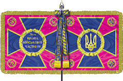 Battle Flag of the Security Service of Ukraine